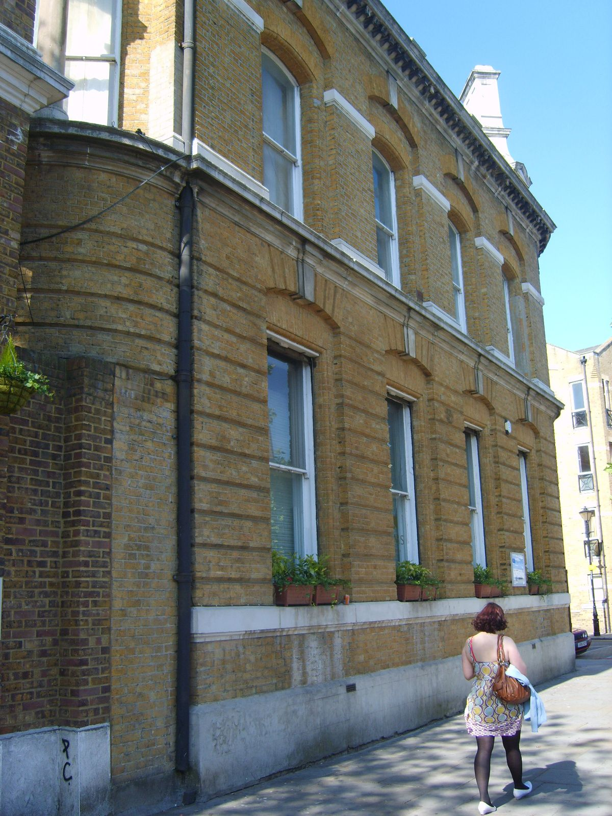 Charringtton Brewery on mile End Road, Stepney, London, E1